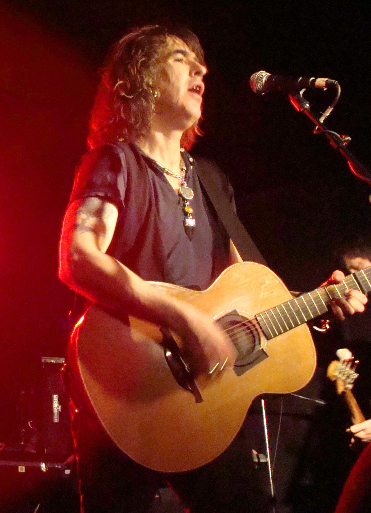 Justin Sullivan on stage with New Model Army in Brooklyn on 20 March 2008.